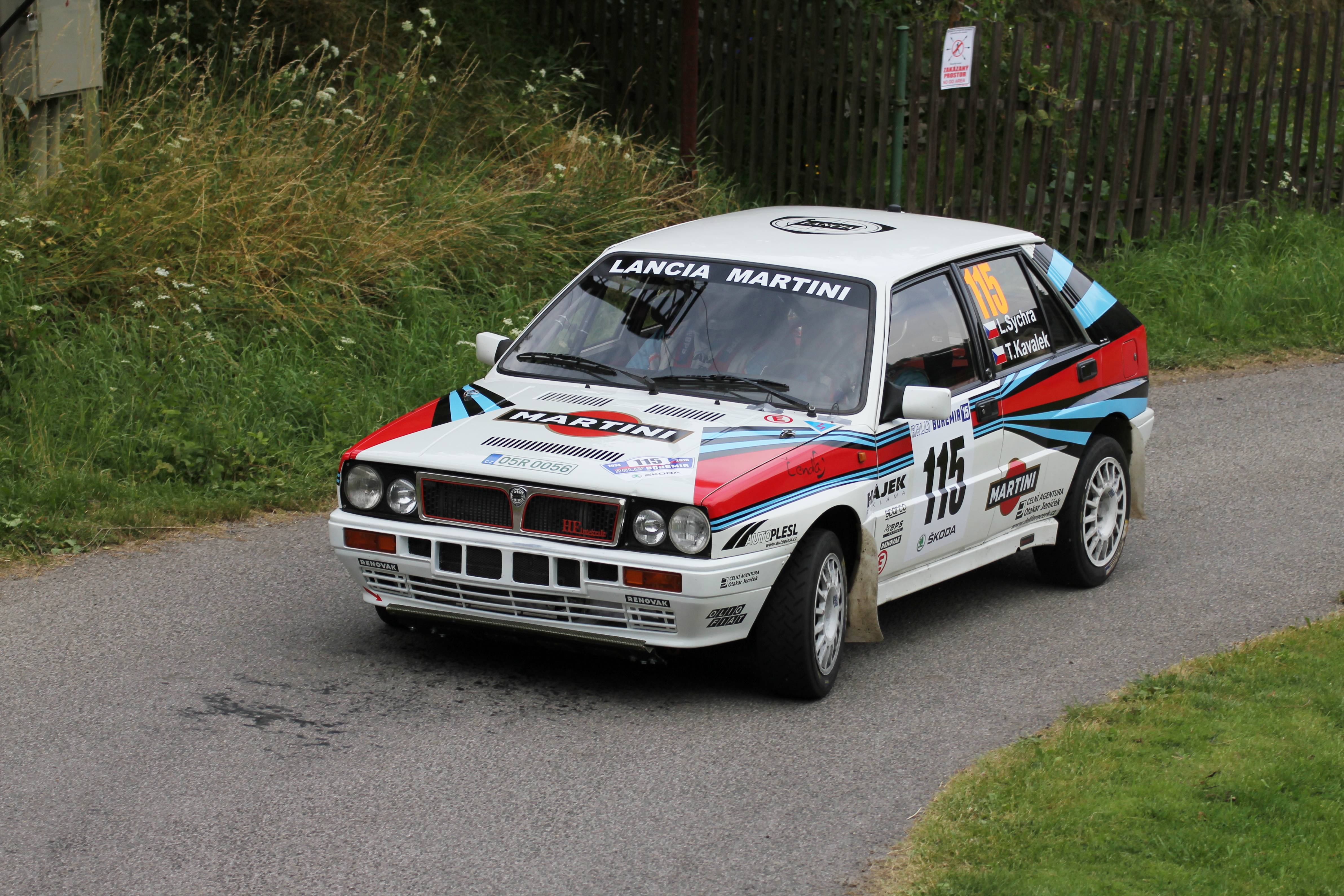 Lubomír Sychra / Tomáš Kavalek, Lancia Delta HF Integrale, 2015 Rally Bohemia Historic